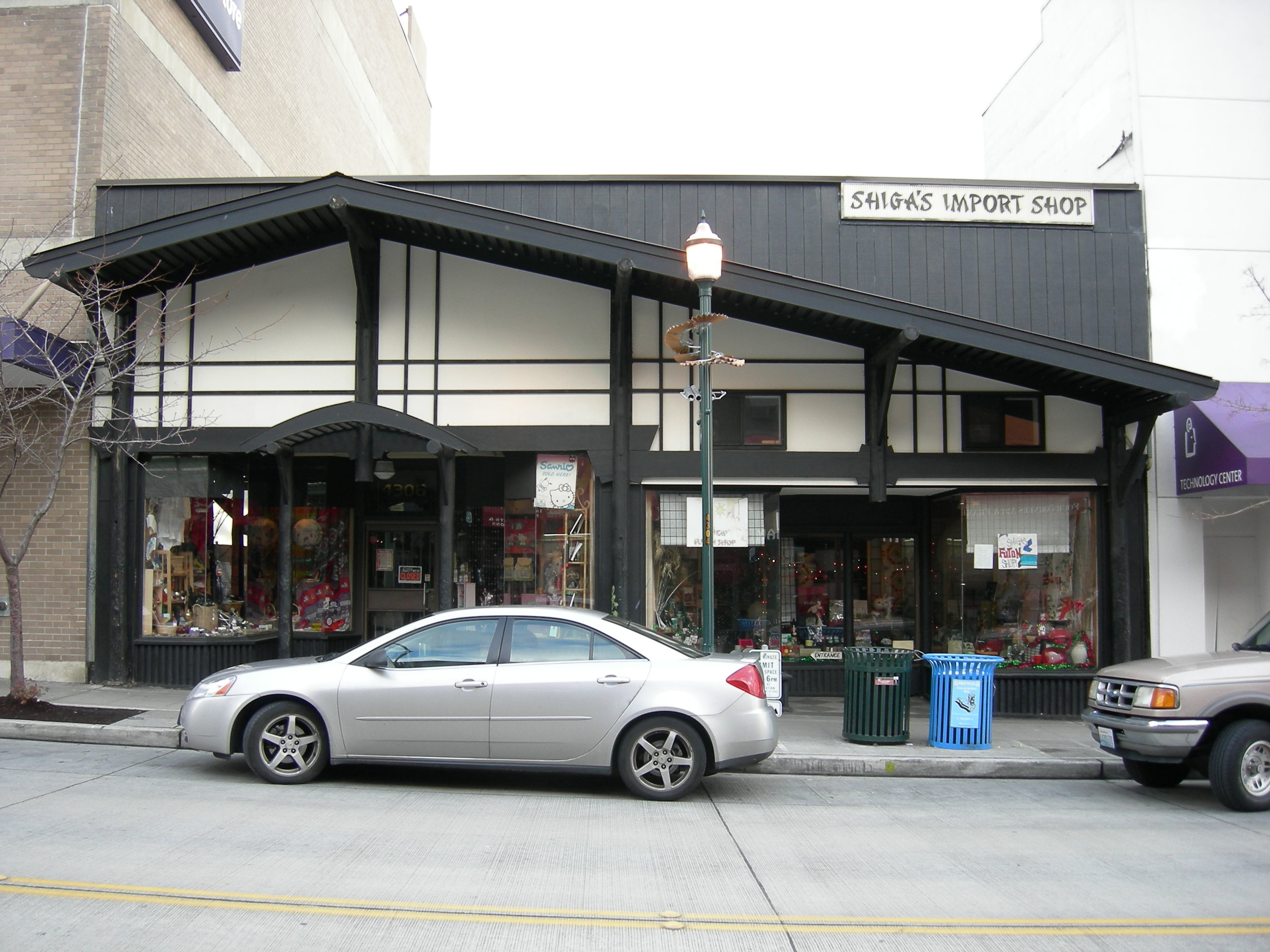 Andy Shiga's One World Shop, 4306 University Way NE, University District, Seattle, Washington.